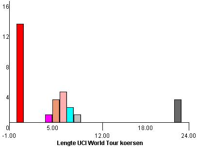 Histogram of the length of the races announced for the 2011 UCI World Tour in cycling.